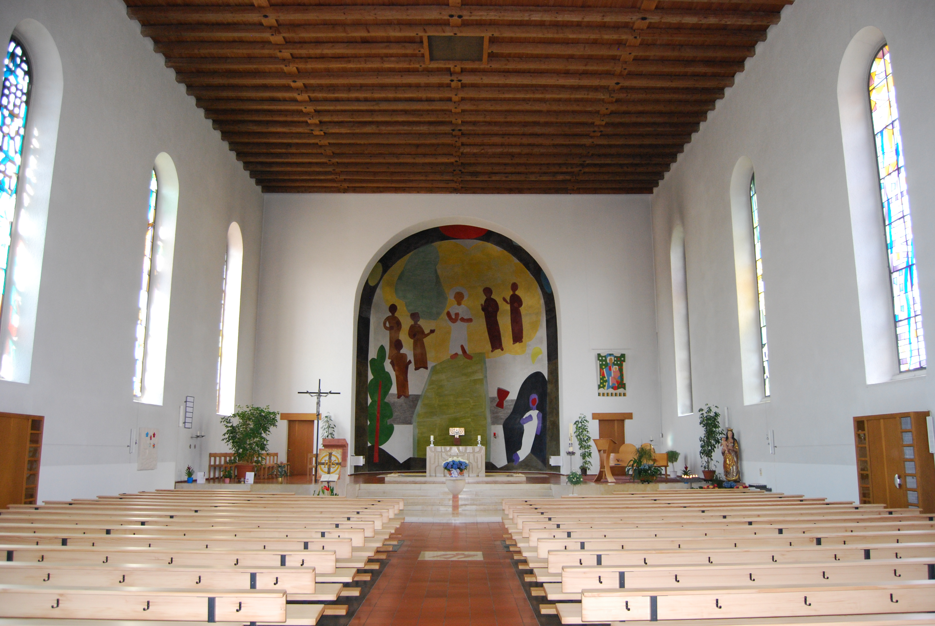 Catholic church of Erlinsbach, canton of Solothurn, Switzerland